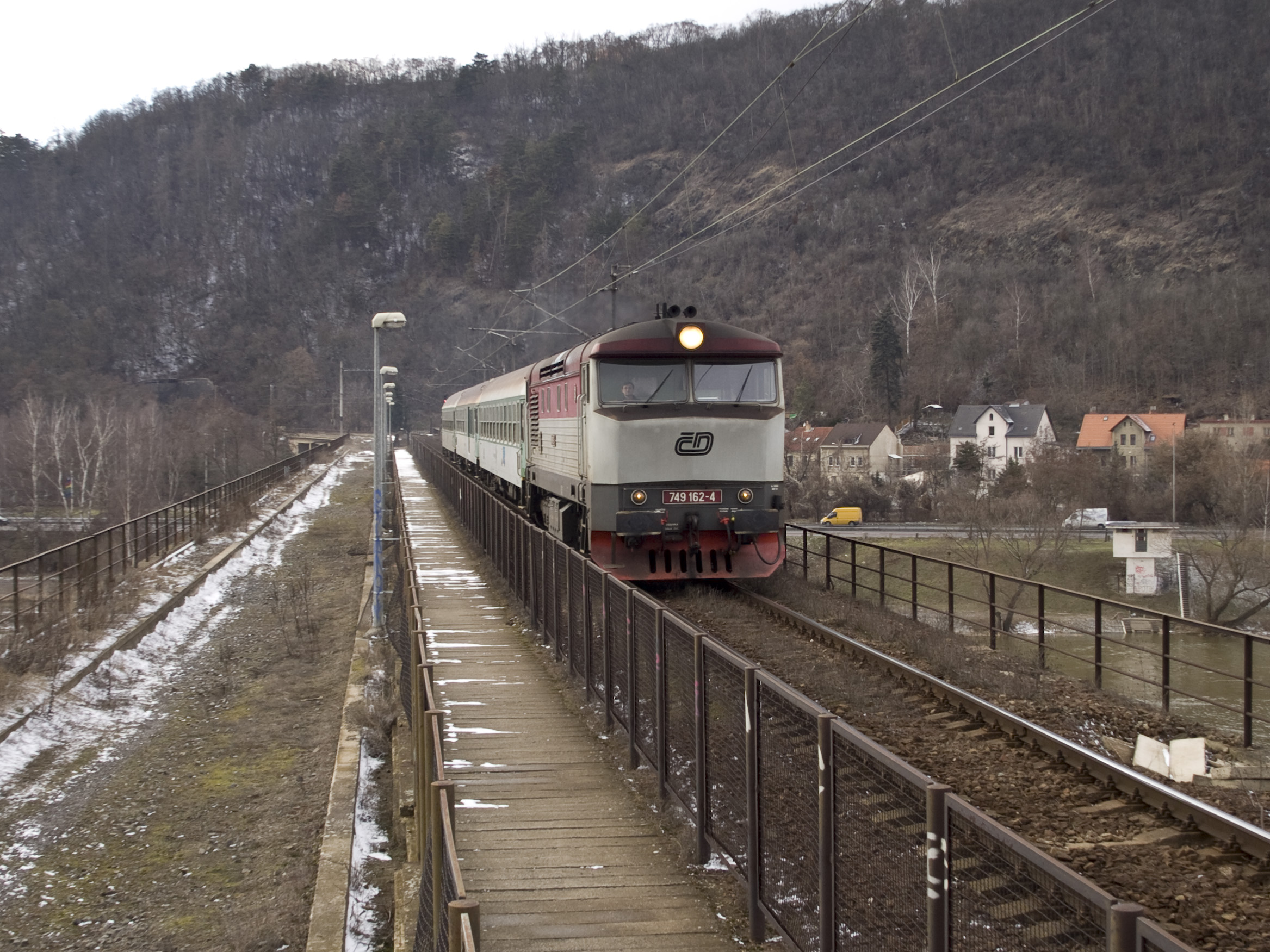 Locomotice 749-162, railway bridge Braník – Malá Chuchle, Prague